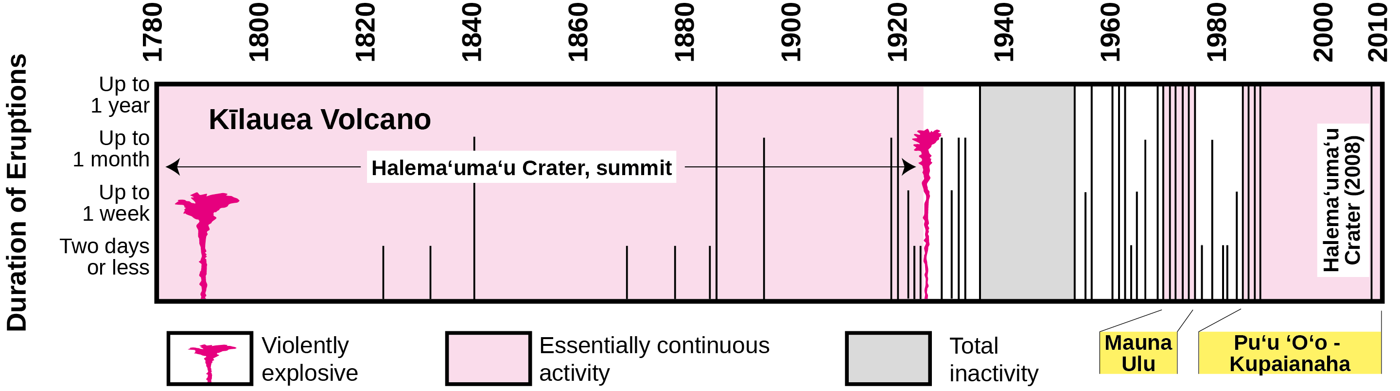 Graph summarizing the eruptions of Kïlauea during the past 200 years. The Pu‘u ‘Ö‘ö- Kupaianaha eruption has continued into the 21st century. Information is sketchy for eruptions before 1823, when the first missionaries arrived on the Island of Hawai‘i. The total duration of eruptive activity in a given year, shown by the length of the vertical bar, may be for a single eruption or a combination of several separate eruptions. (Caption from USGS publication.)